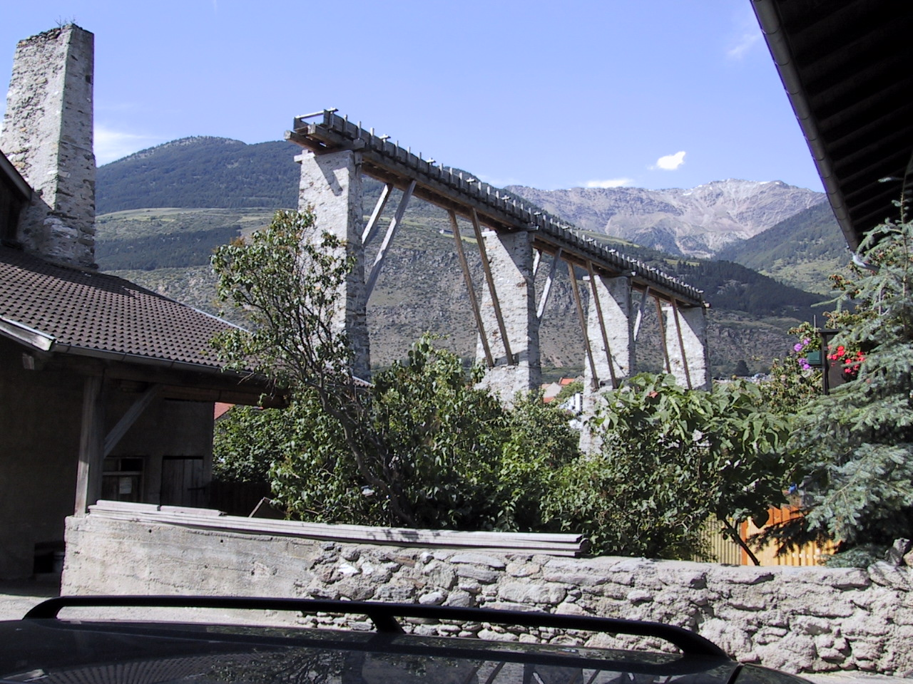 Wooden aqueduct in Laas in the Vinschgau Valley